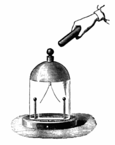 Drawing of a gold-leaf electroscope from the 1800s, illustrating induced charge. A hand holds a charged rod near the electroscope terminal, inducing polarization in the terminal, making the gold leaves spread apart. The two grounded metal electrodes opposite the gold leaves in the jar are a protective device. If an excessive charge is placed on the electroscope and the delicate leaves spread too far, they will touch the guard electrodes and discharge before tearing. Alterations: removed caption.